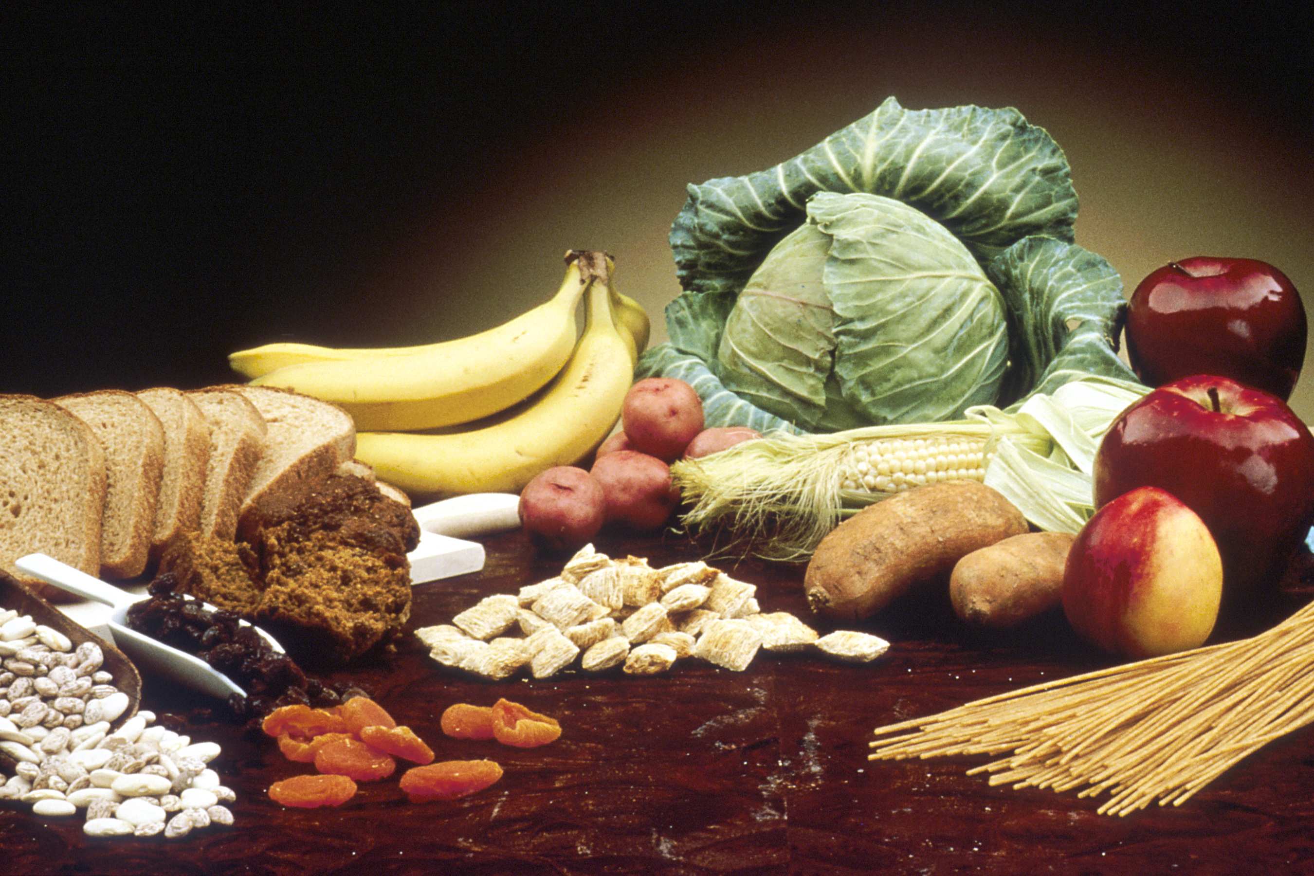 A wooden table containing: a ladle full of beans, a sliced loaf of brown bread, a bunch of bananas, muffins, small potatoes, a head of cabbage, an ear of corn, a pile of cereal, yams, apples, a nectarine and some spaghetti. See also AV-3905 and AV-3906. AV Number: AV-8812-3429 Reuse Restrictions: None - This image is in the public domain and can be freely reused. Please credit the source and/or author listed above.